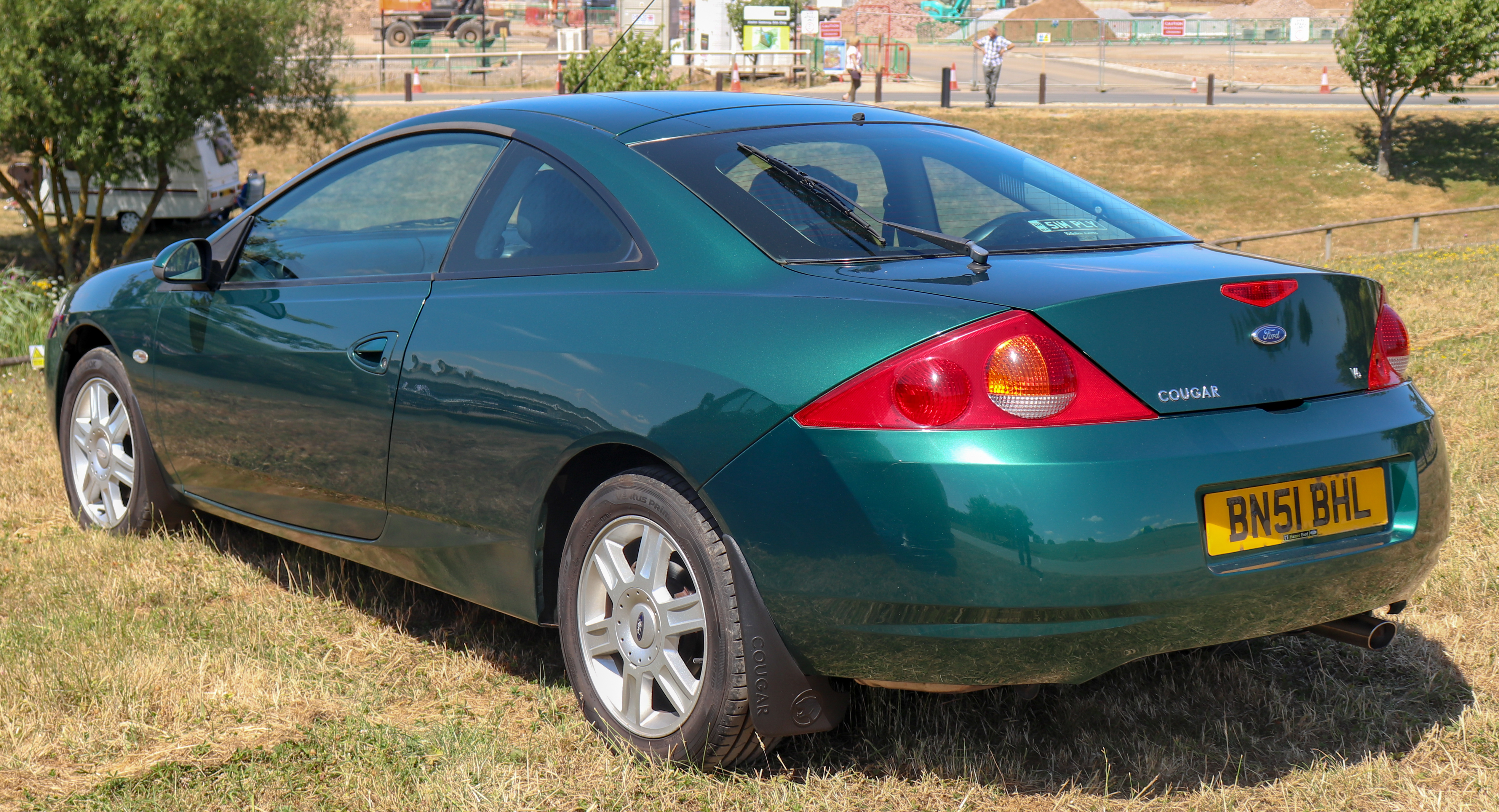 2001 Ford Cougar 2 2.5 Rear Taken at the British Motor Museum Old Ford Rally 2018, Gaydon